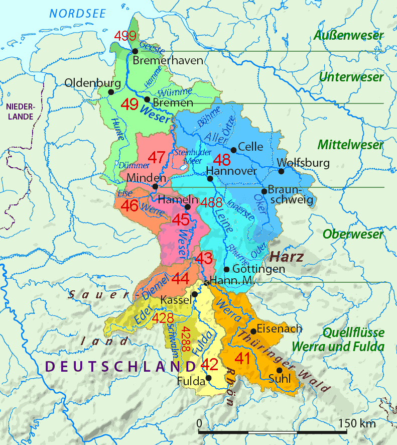 Drainage basin of Weser River with partitions